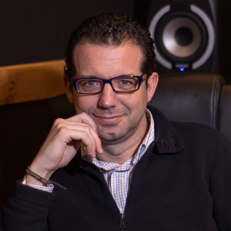 foto autor Jose Abraham